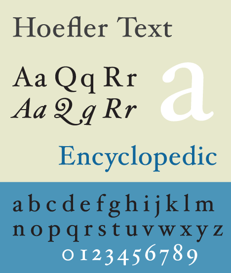 Specimen of the typeface Hoefler Text, Jim Hood